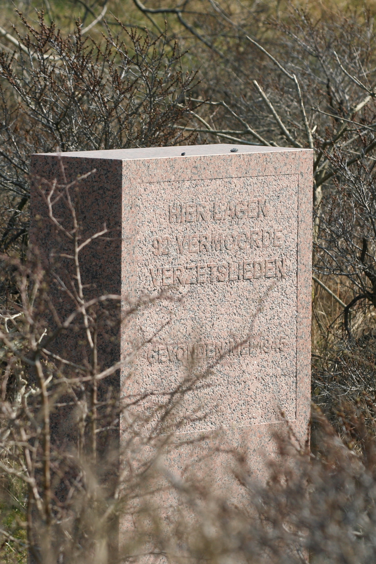 Dutch resistance Memorial in dunes near Bloemendaal